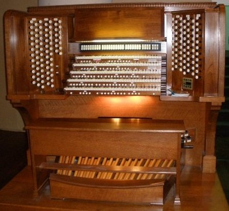 A picture of the Turner console for the Royce Hall E. M. Skinner organ